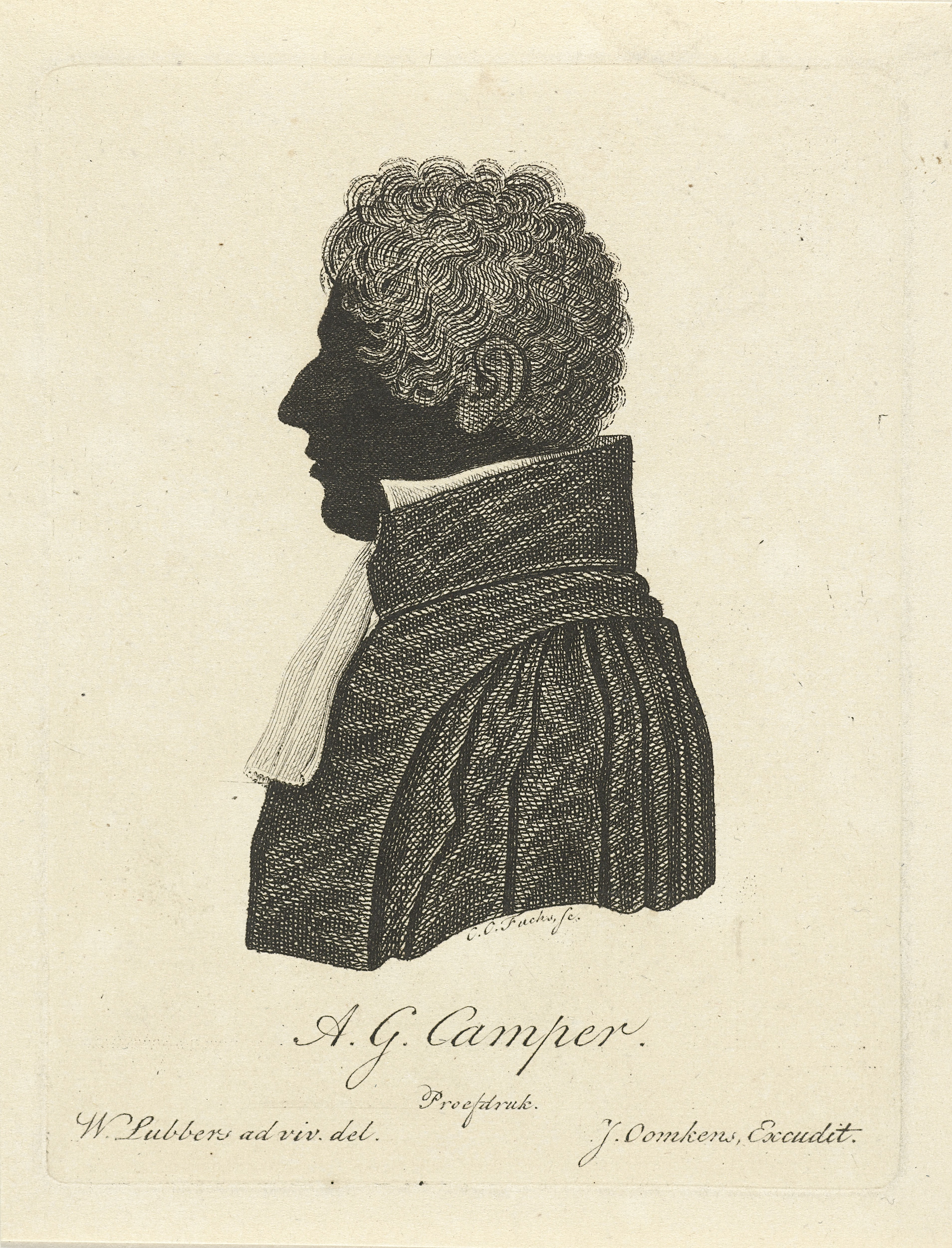 Profile of Adriaan Gilles Camper, drawn by Wessel Lubbers (1755-1834), etched by Carl Christiaan Fuchs (1792-1855), published by Jan Ommkens (1779-1844) in 1814.